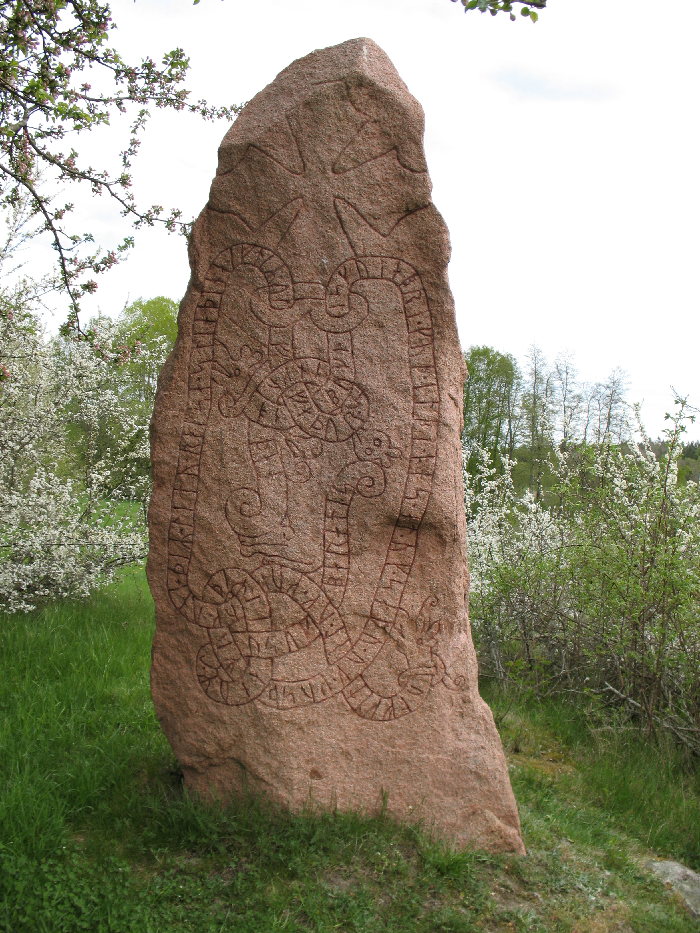 Runestone U 160, Uppland, Sweden.